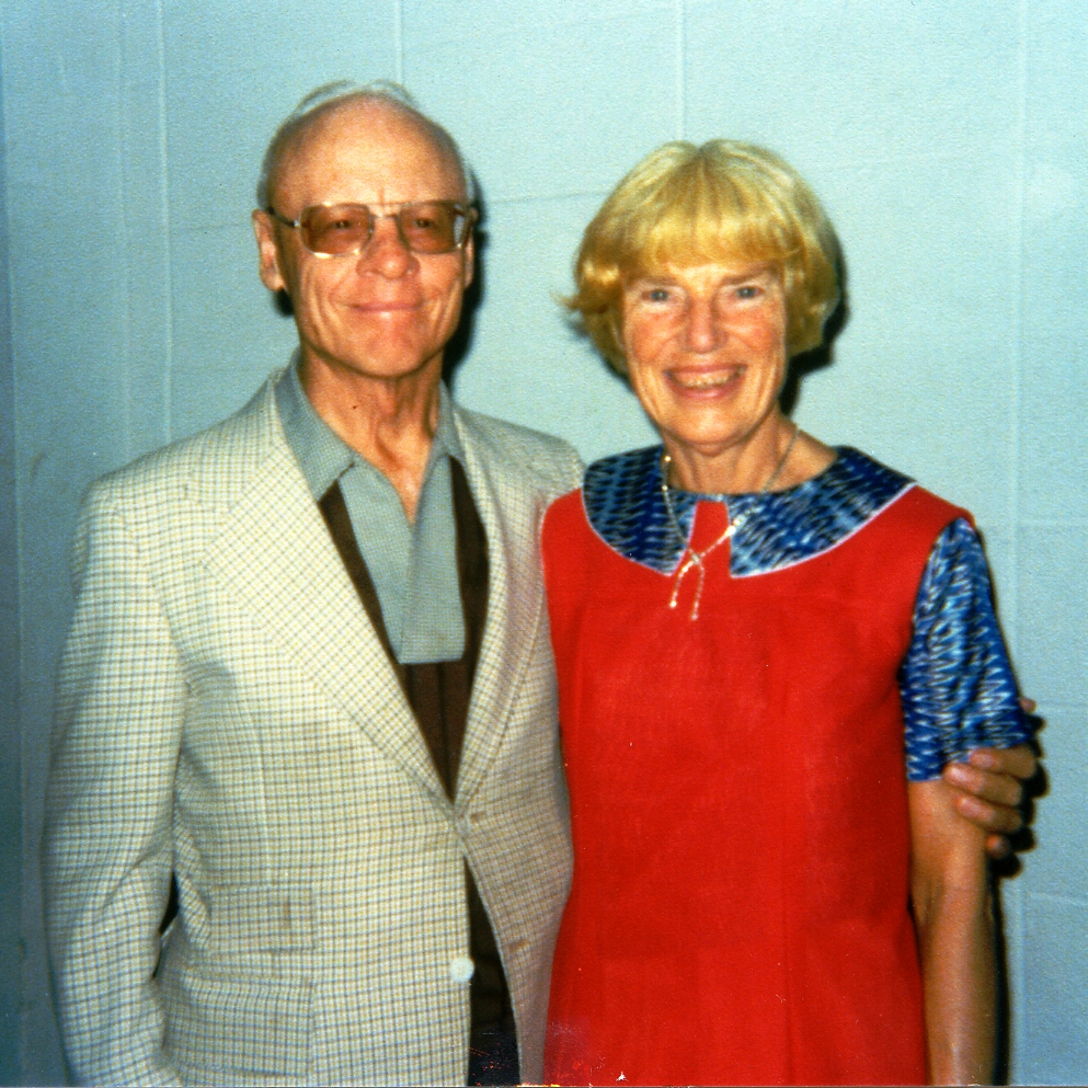 Beulah and her husband Henry Gundling in May 1980 during the IAAA Festival at Samford University in Birmingham - Alabama.